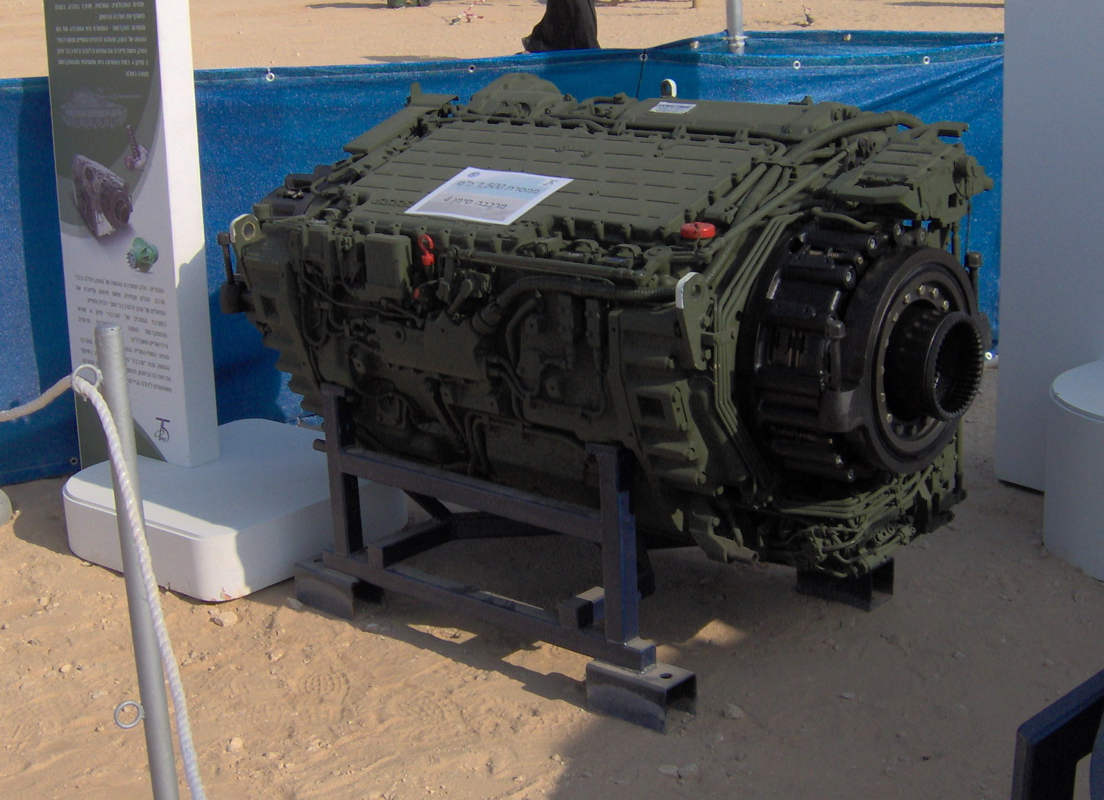 Merkava 4 transmission